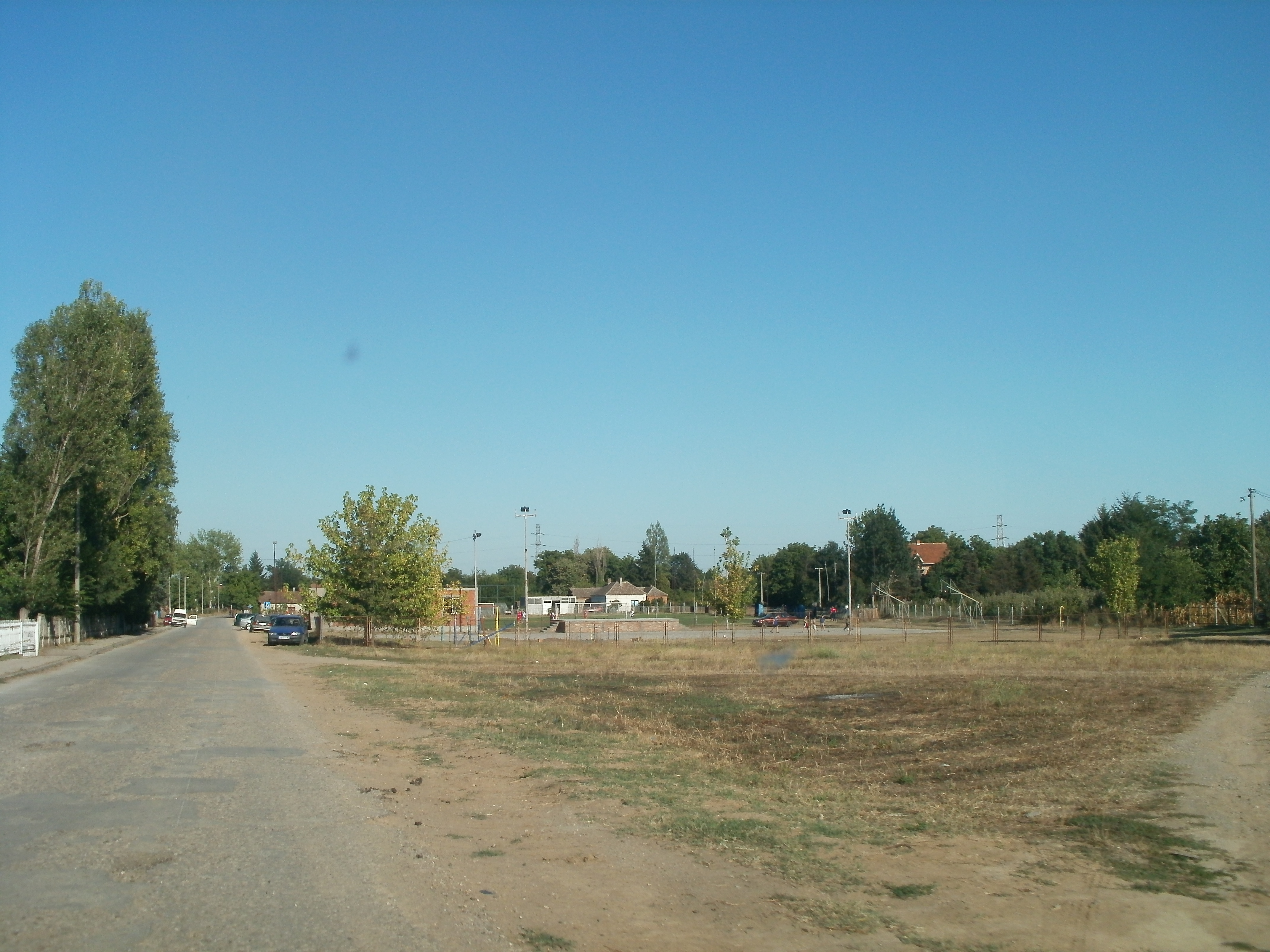 Ralja, Street